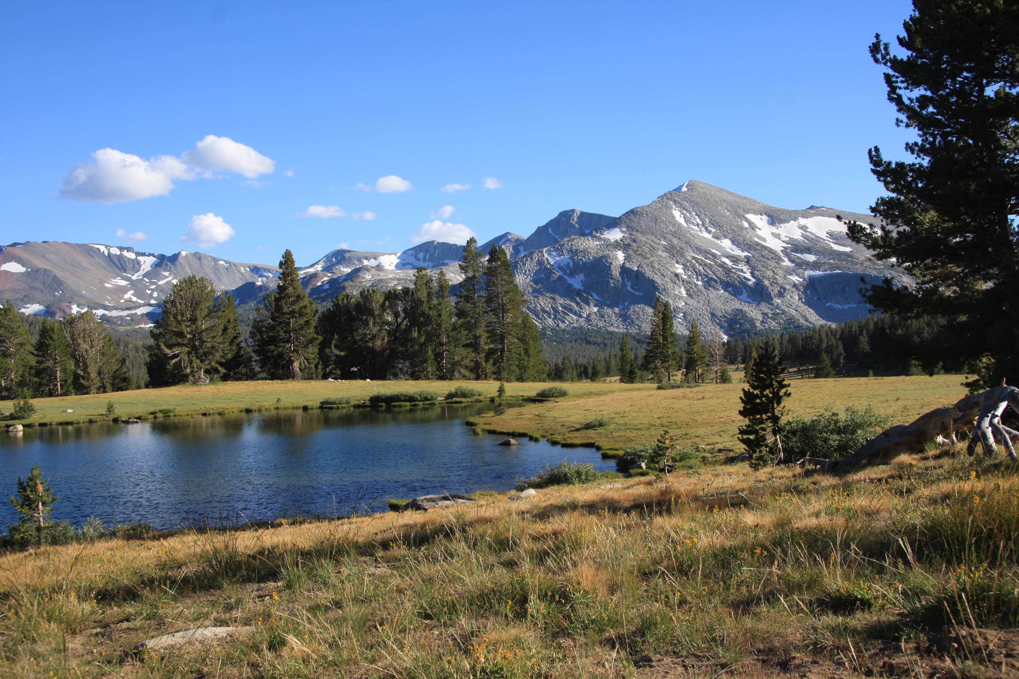 Tioga Pass meadow, lake, and view of the Kuna Crest. At 3,030 m (9,940 ft) near Tioga Pass Road, Yosemite National Park, California.